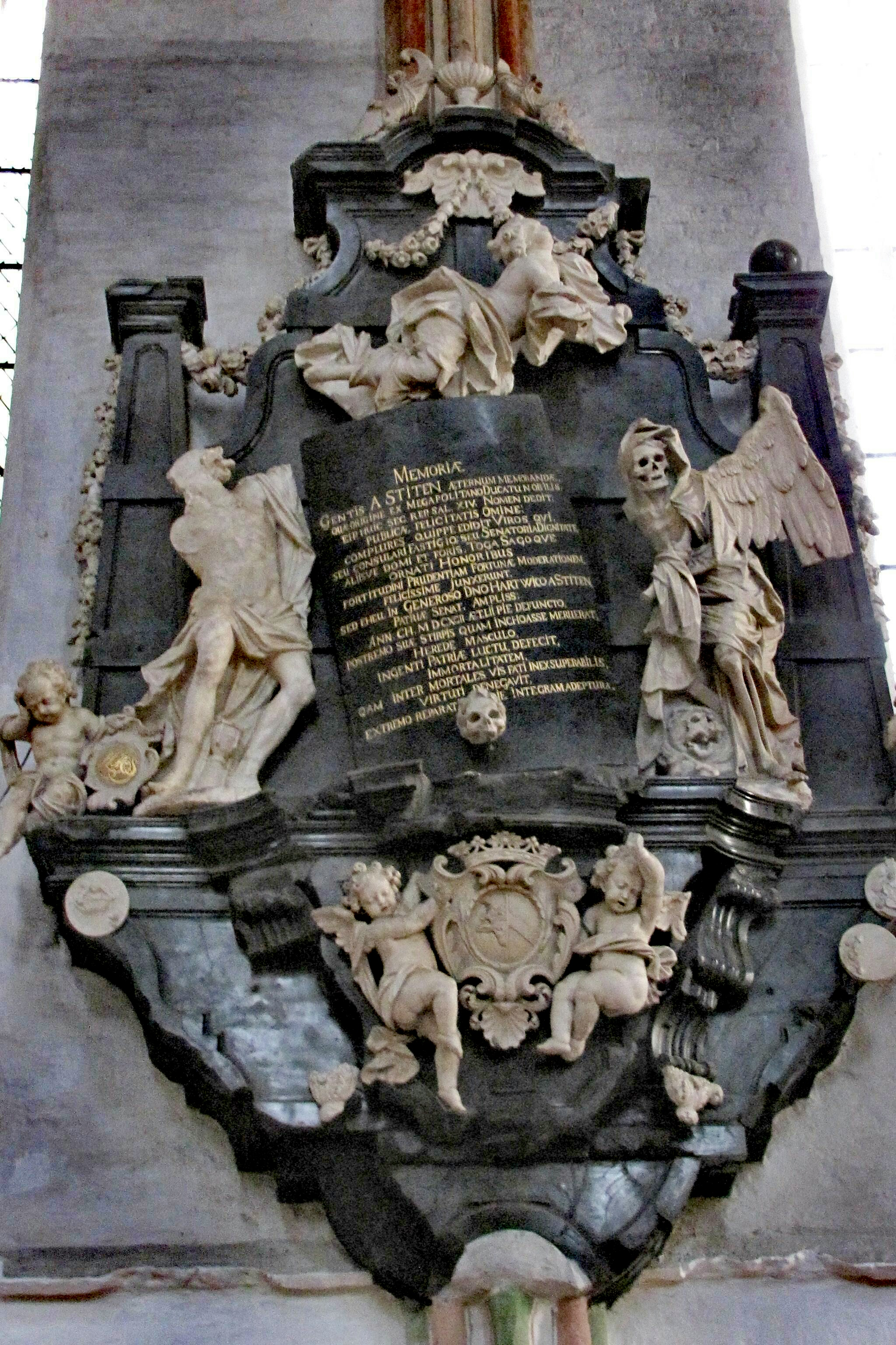 Epitaph for Hartwig von Stiten (1640–1692) by Thomas Quellinus